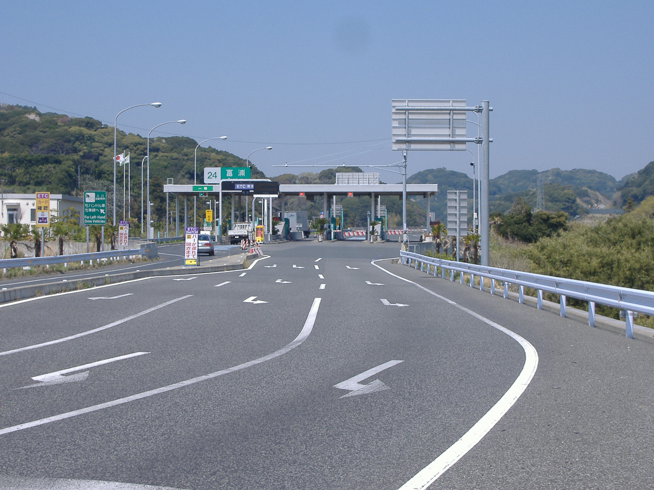 Futtsu Tateyama Road Tomiura Interchange (Chiba, Japan)